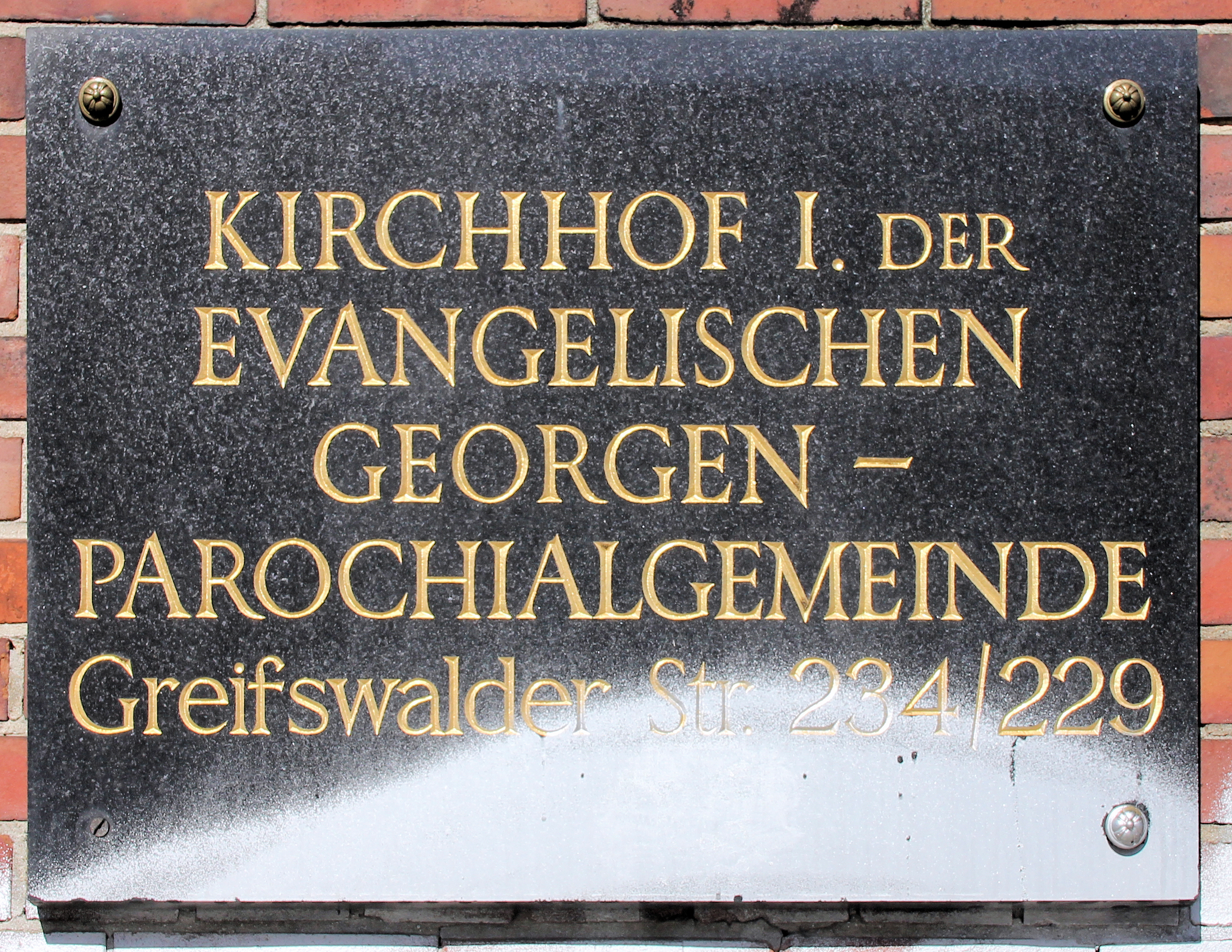 Memorial plaque, Friedhof I der Georgen-Parochialgemeinde, Greifswalder Straße 229, Berlin-Prenzlauer Berg, Germany